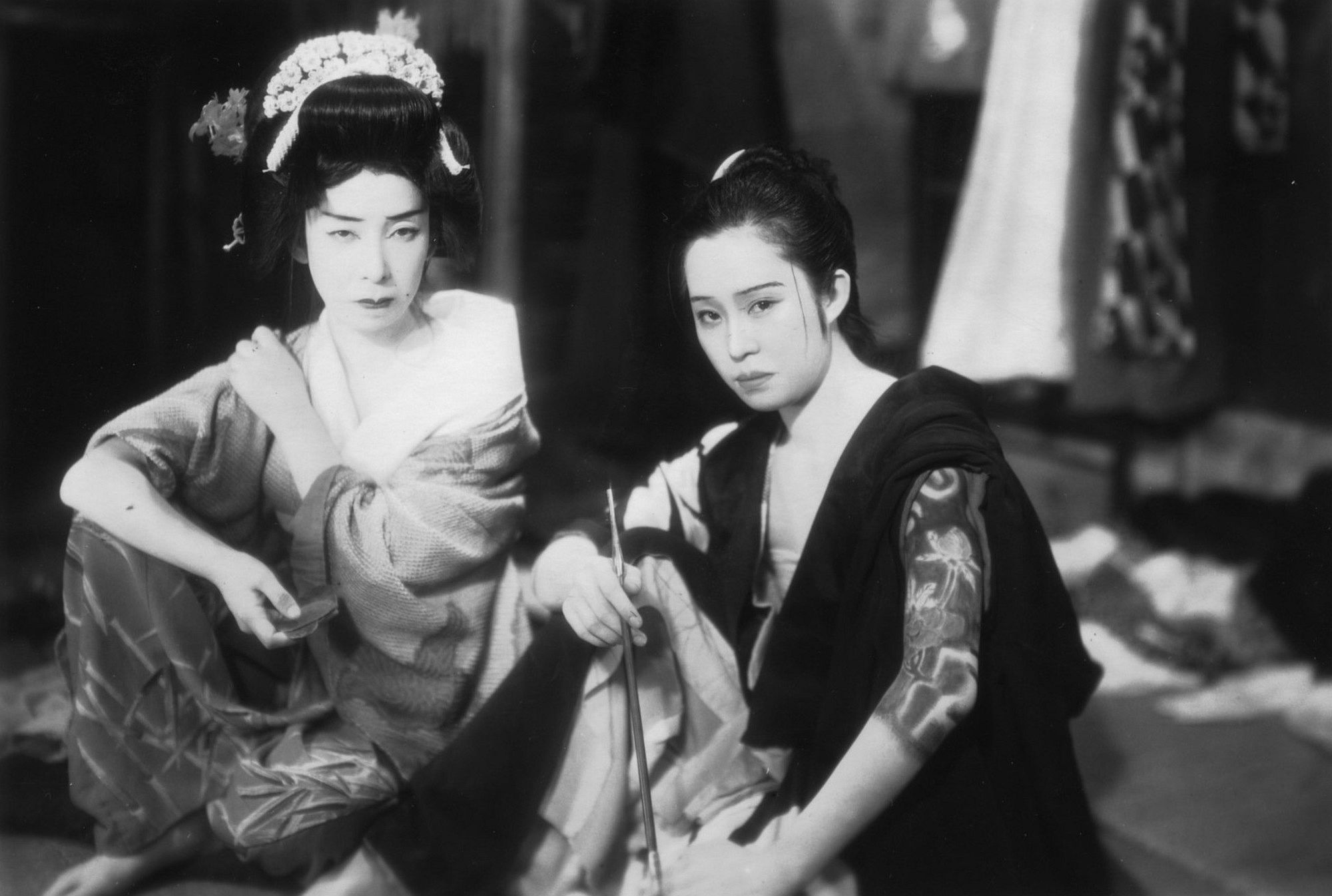 Yōko Umemura and Komako Hara in Ojō Okichi (1935)